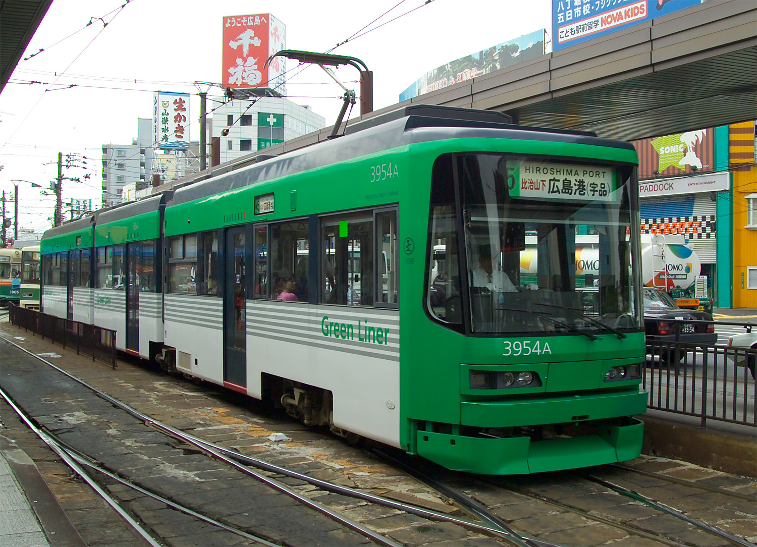 A Hiroden streetcar at Hiroden Hiroshima Station in Hiroshima, Japan.